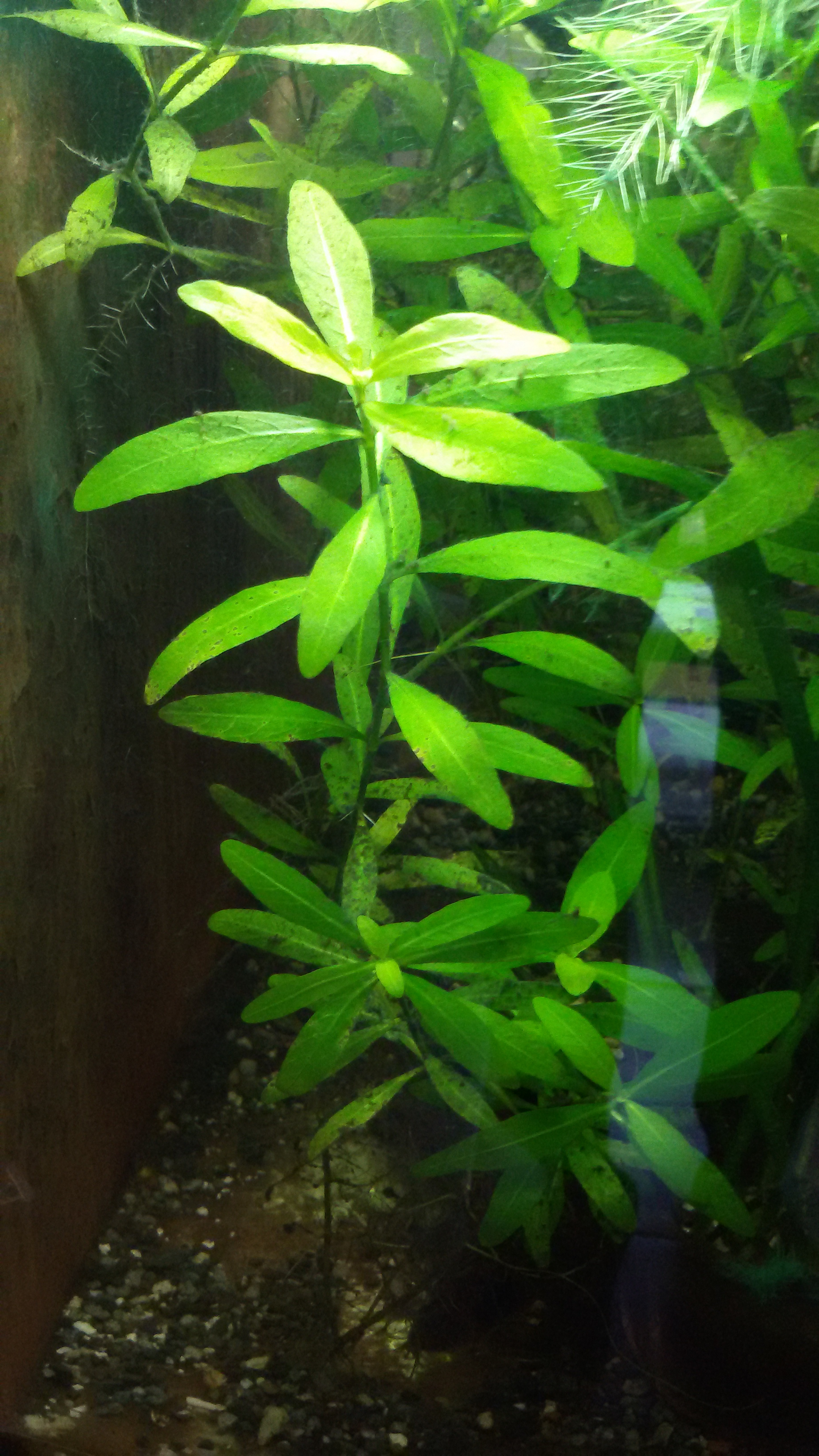 H. Polysperma in 20 gallon tank indoors